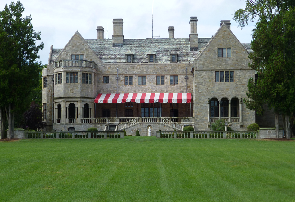 Rear of Bellarmine Hall at Fairfield University in Fairfield, Connecticut, USA.